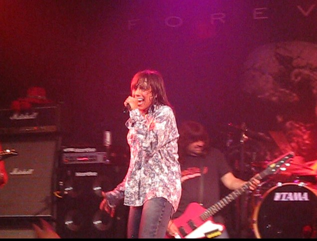 Jeff Keith at the Chance Theater in Poughkeepsie, NY. April 27, 2009.